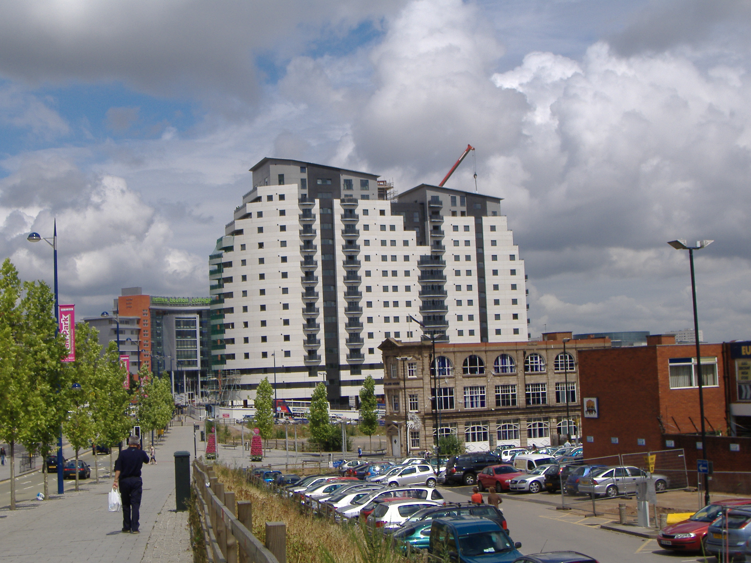 This is Masshouse Block M, Birmingham, United Kingdom.